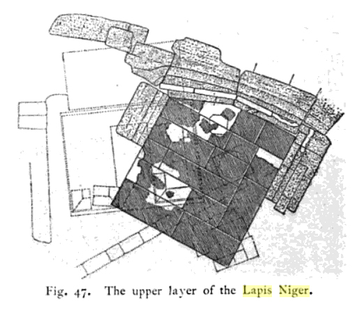 The lapis Niger of the Imperial Age. This covering of black slabs is said to have been placed by Julius Caesar as part of his rearrangement of the comitium and forum.